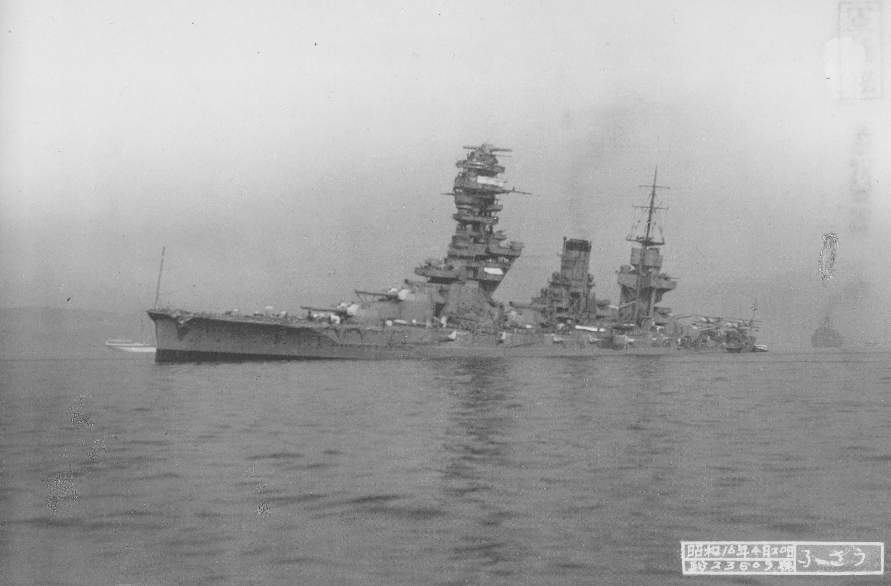 Imperial Japanese Navy battleship Fusō undergoes a flooding/drainage of water test at Kure, Japan